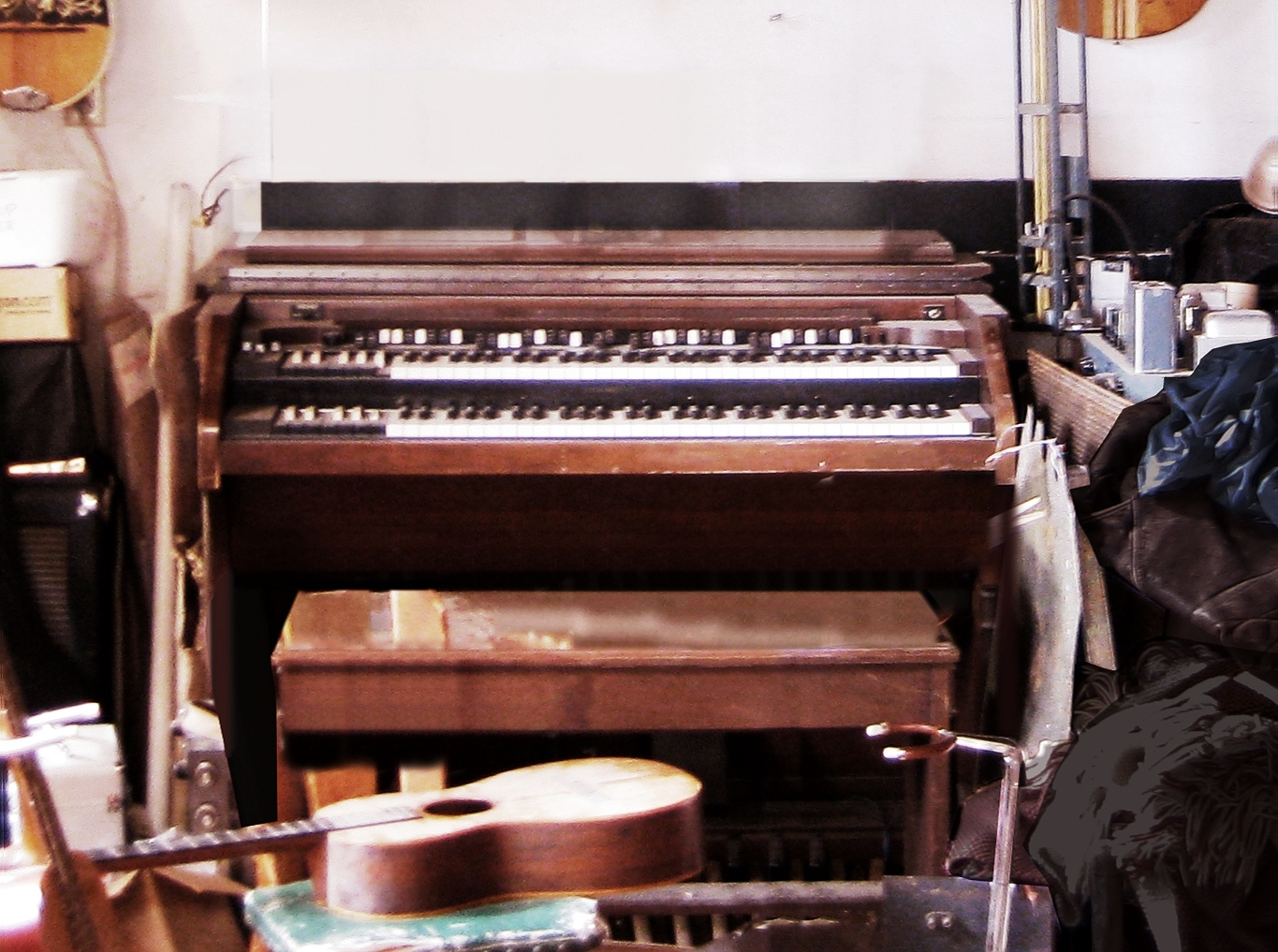 Hammond Model D (may be :) Model D = Model C + chorus effect (by additional tone generator) produced years: Jun 1939 to Nov 1942. source: Luthier's workshop, Winter, San Francisco, California (2009-01-25)